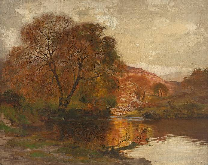 Sir Alfred East: Lake in autumn, oil on canvas, 102 x 127 cm. R